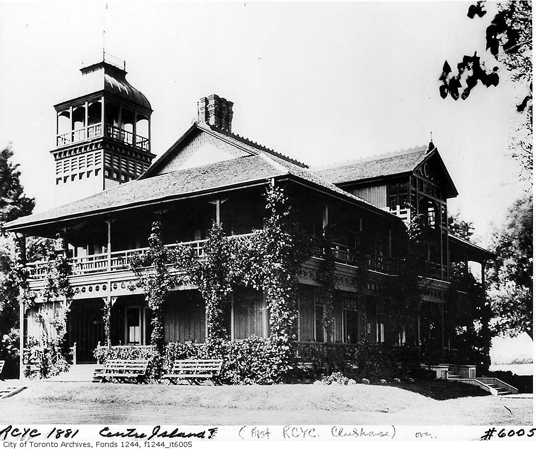 Photographer: William James 1881 City of Toronto Archives This image is available from the City of Toronto Archives, listed under the archival citation Fonds 1244, Item 6005. This tag does not indicate the copyright status of the attached work. A normal copyright tag is still required. See Commons:Licensing for more information.